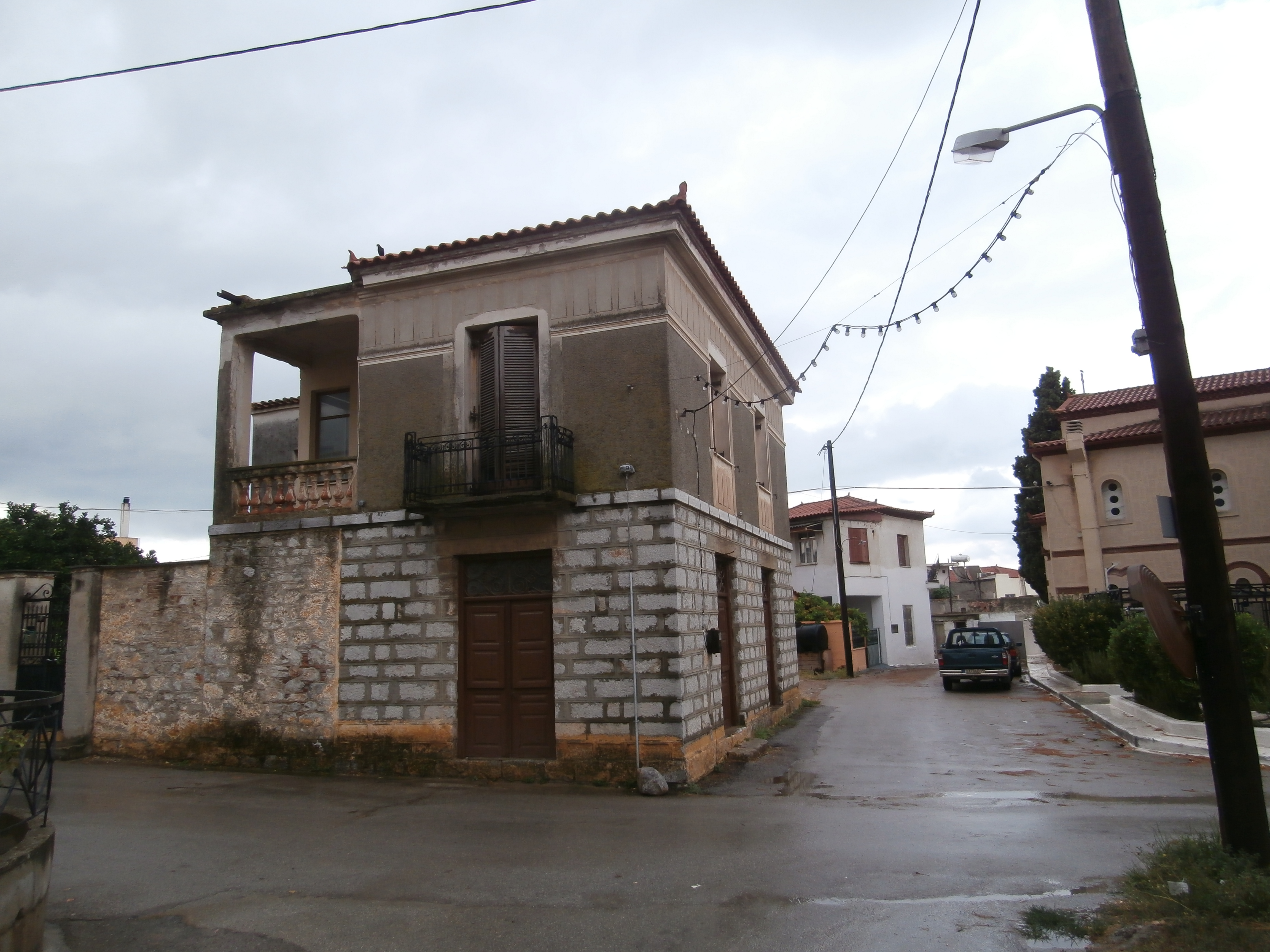 The old quartier of Vasiliko